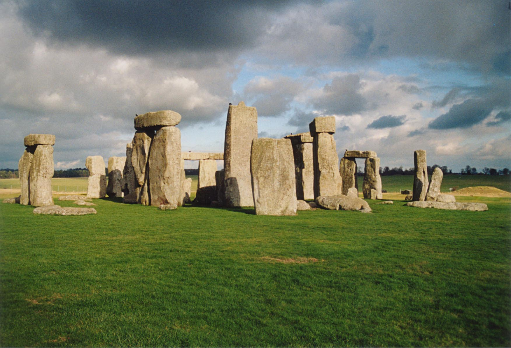 Stonehenge, Wiltshire. Stonehenge itself is owned and managed by English Heritage whilst the surrounding downland is owned by the National Trust.